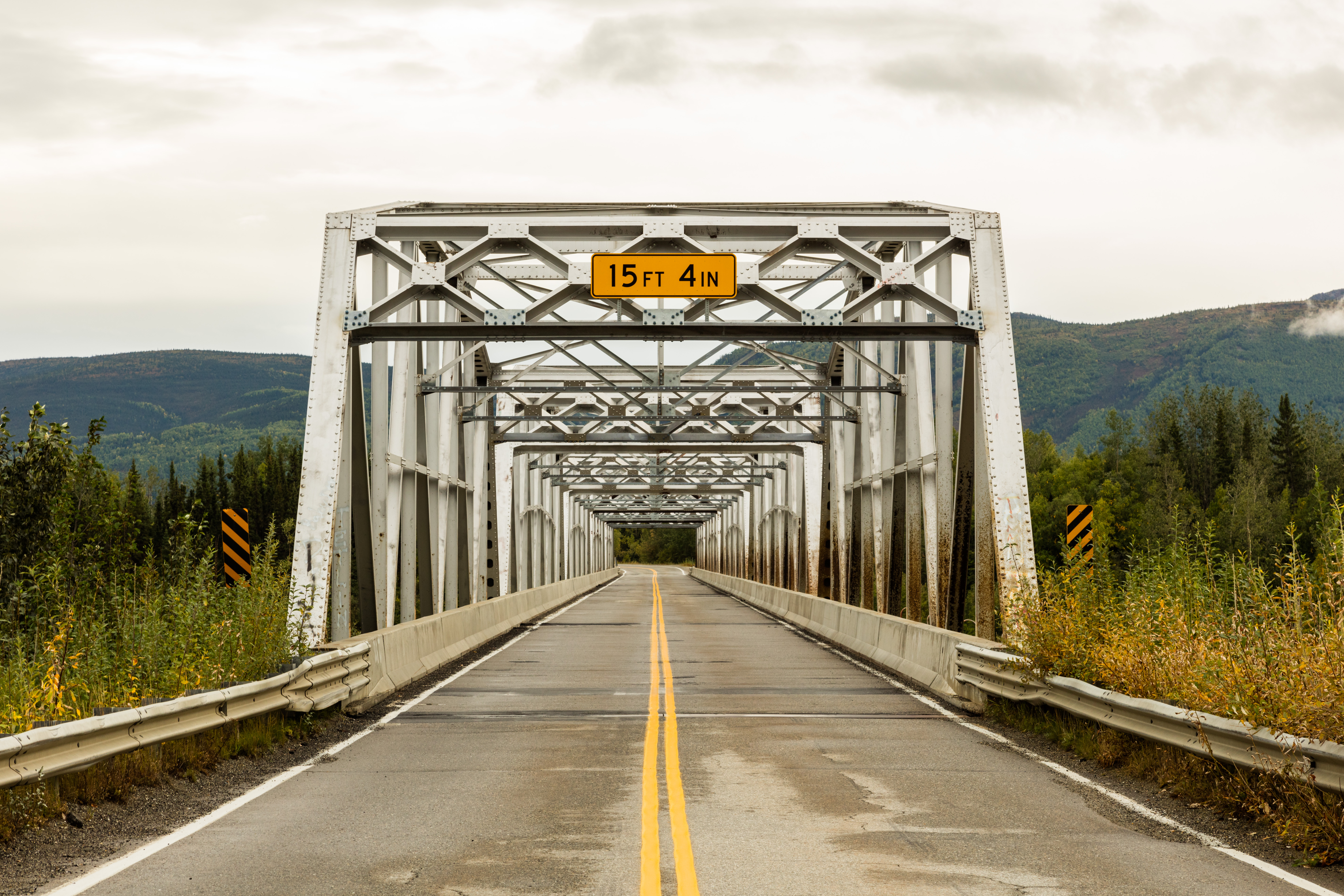 Bridge over the Johnson River, Alaska, United States